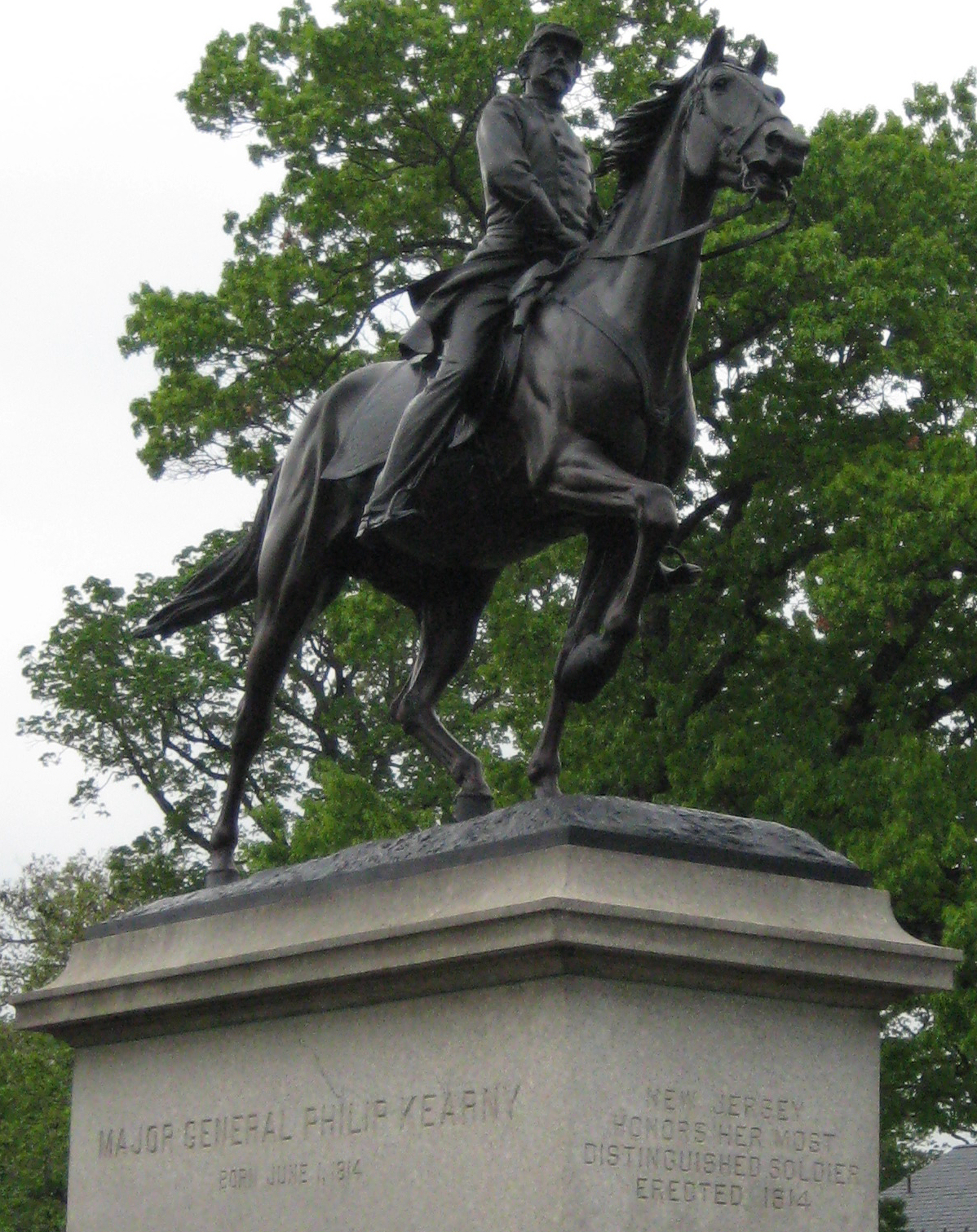 Statue over Philip Kearny's remains in Arlington National Cemetery